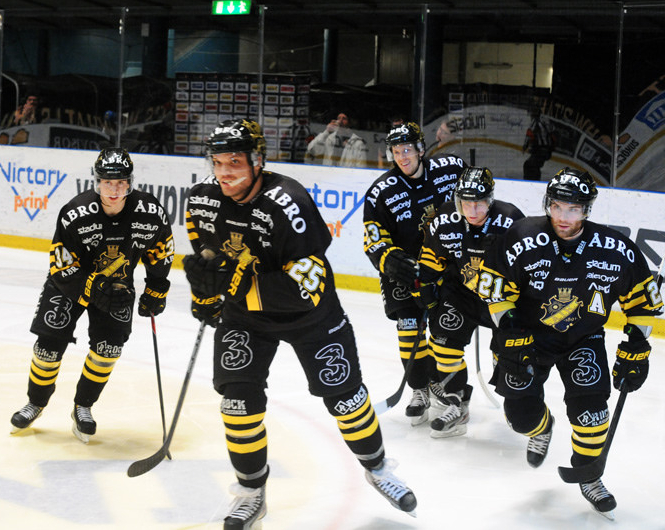 Players of AIK Ishockey celebrating during a game vs. Växjö Lakers